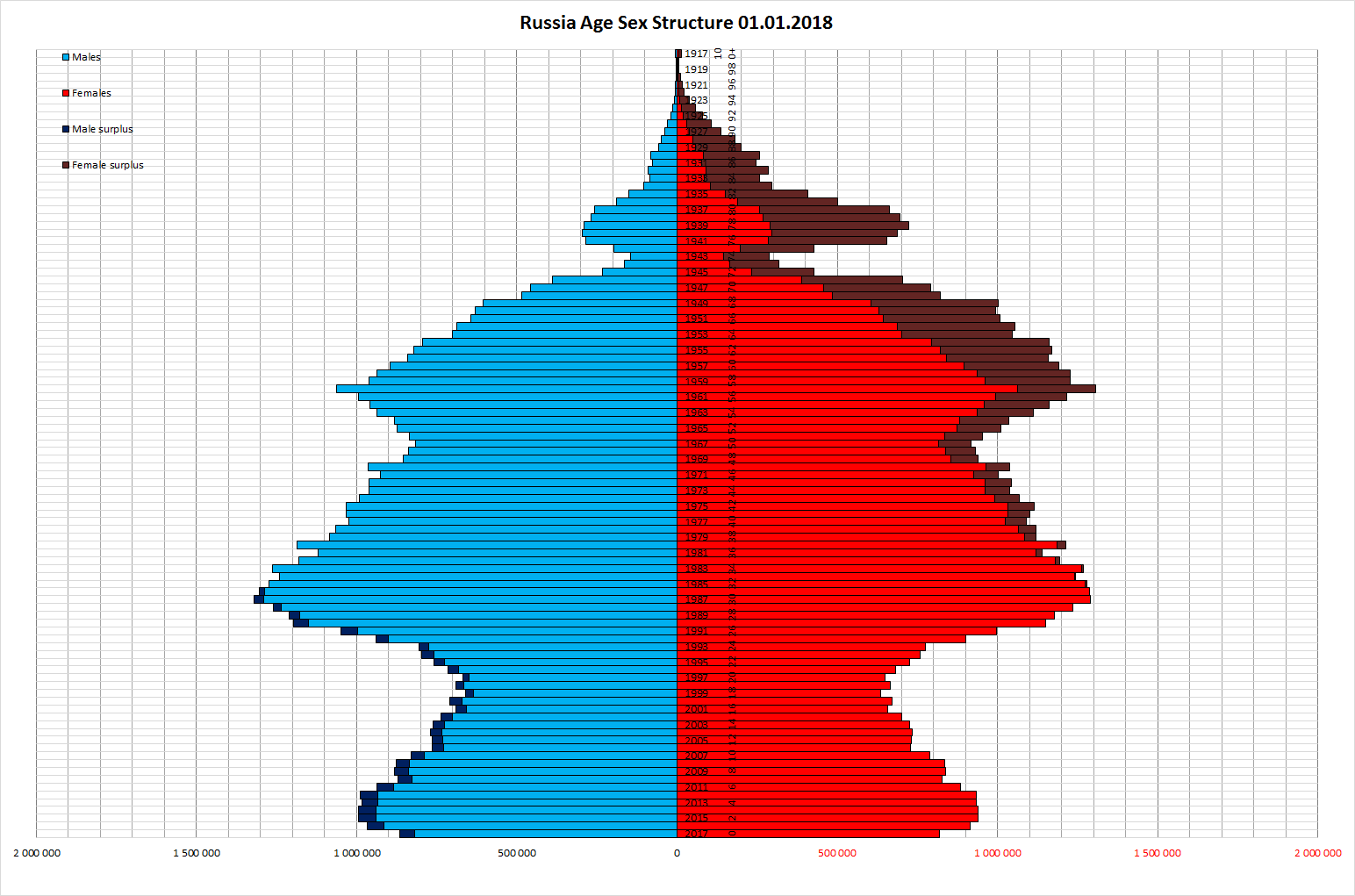 Russian population sex by age (demographic pyramid) as on jan 01, 2018